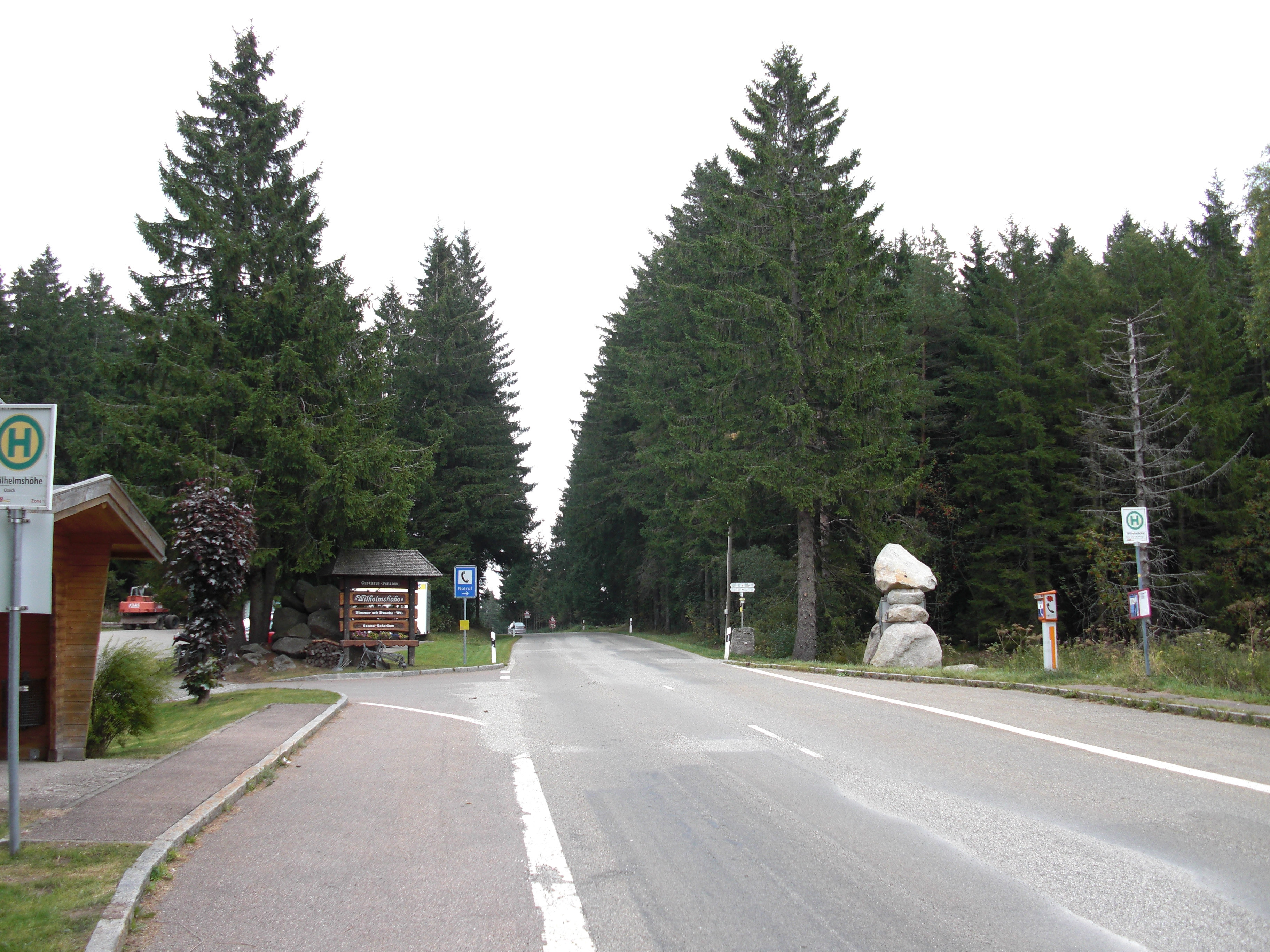 Wilhelmshöhe: Pass summit in the Schwarzwald (black forest)